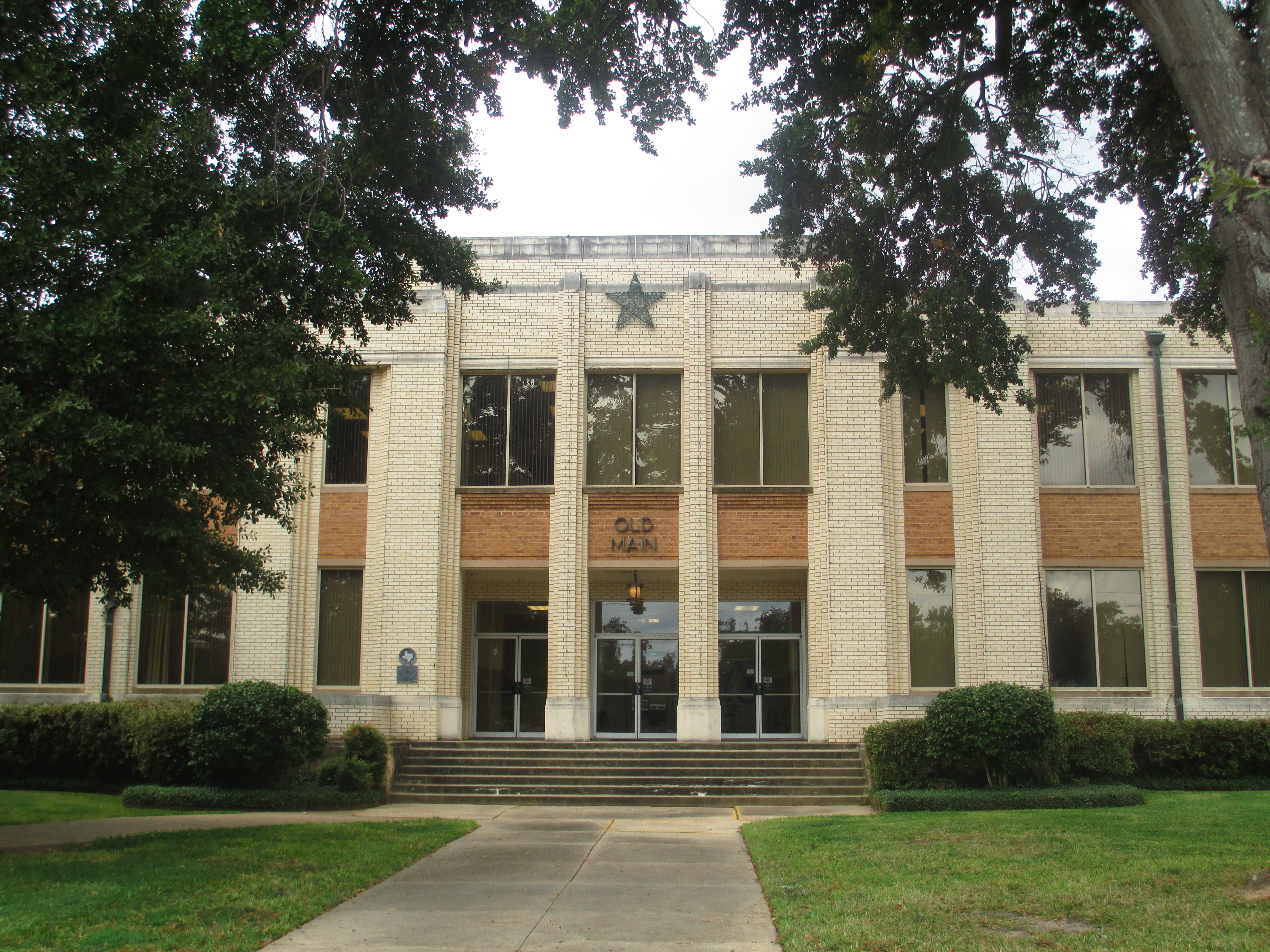 I took photo with Canon camera at Kilgore (TX) College.